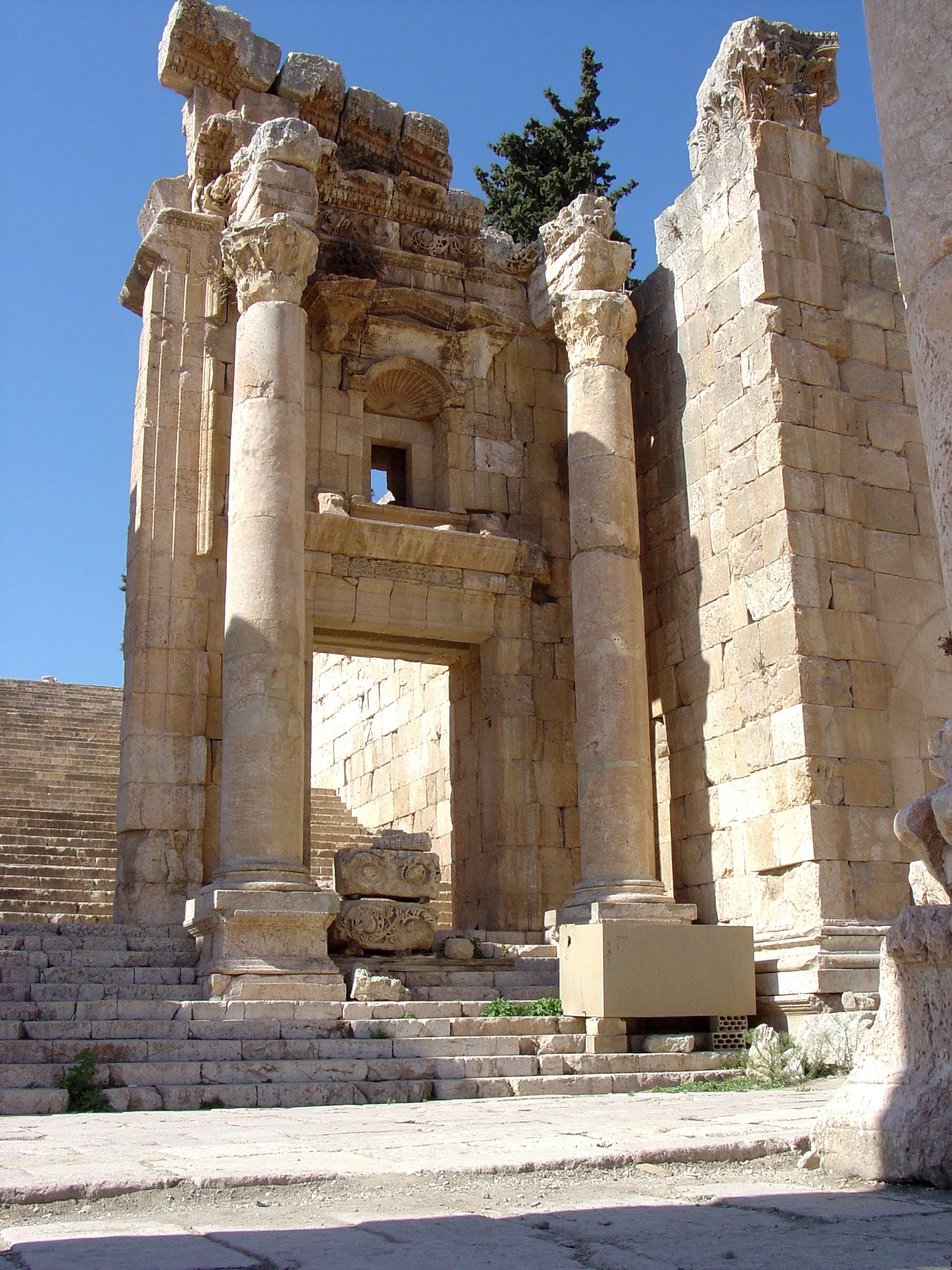 North Propylaeum Temple of Artemis, Jerash The monumental entrance to Jerash's Temple of Artemis is flanked by two magnificent gateways, of which the right (north) is seen here. Her temple was built in the mid-second century AD, at the height of Jerash's prosperity. Artemis was the tutelary deity (Tyche) of Gerasa, which is to say, the chief guardian and protector of the city.